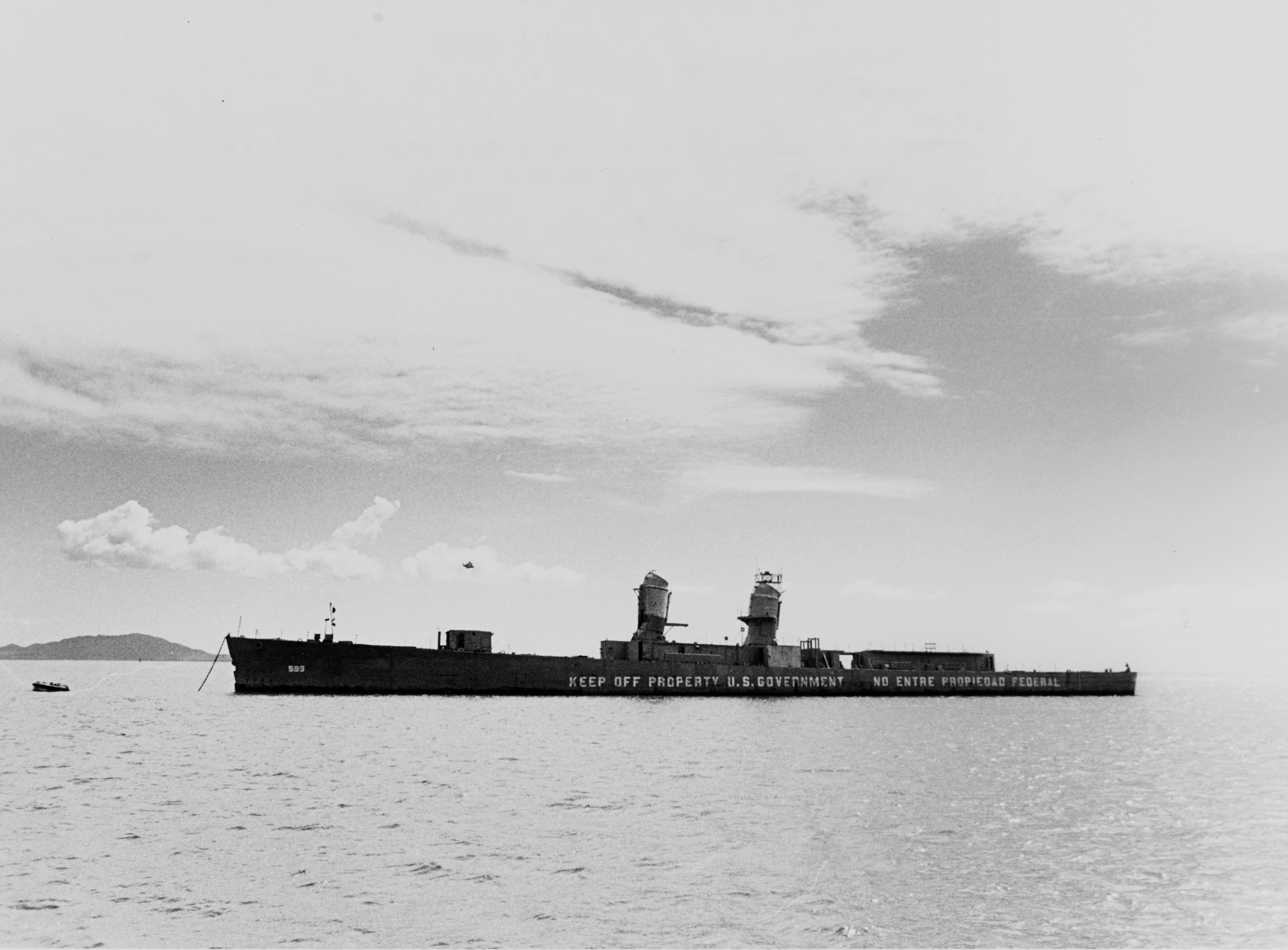 The hulk of the U.S. Navy destroyer USS Killen (DD-593) moored off Naval Station Roosevelt Roads, Puerto Rico, 2 February 1970. She was then in use as a target ship for the Atlantic Fleet Weapons Range.